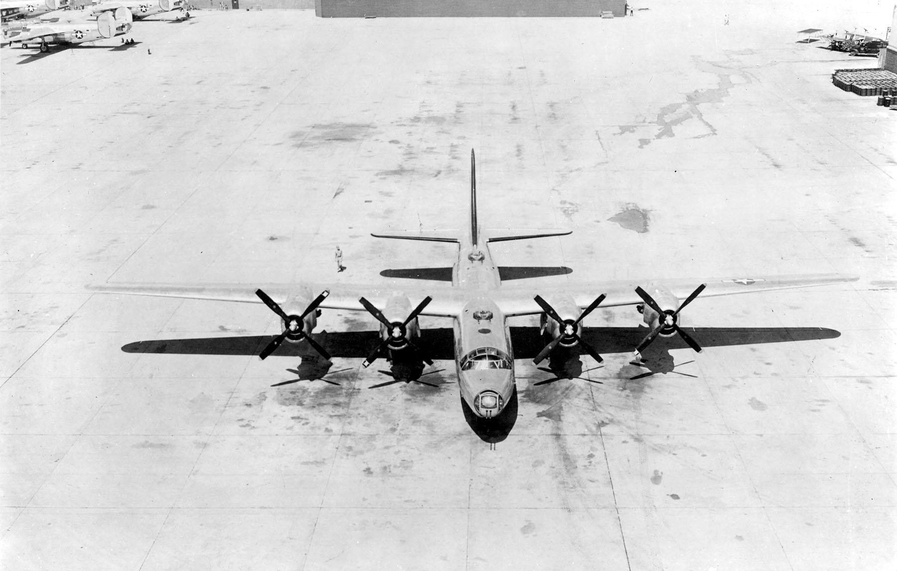 B-32 Dominator on ground seen from above.